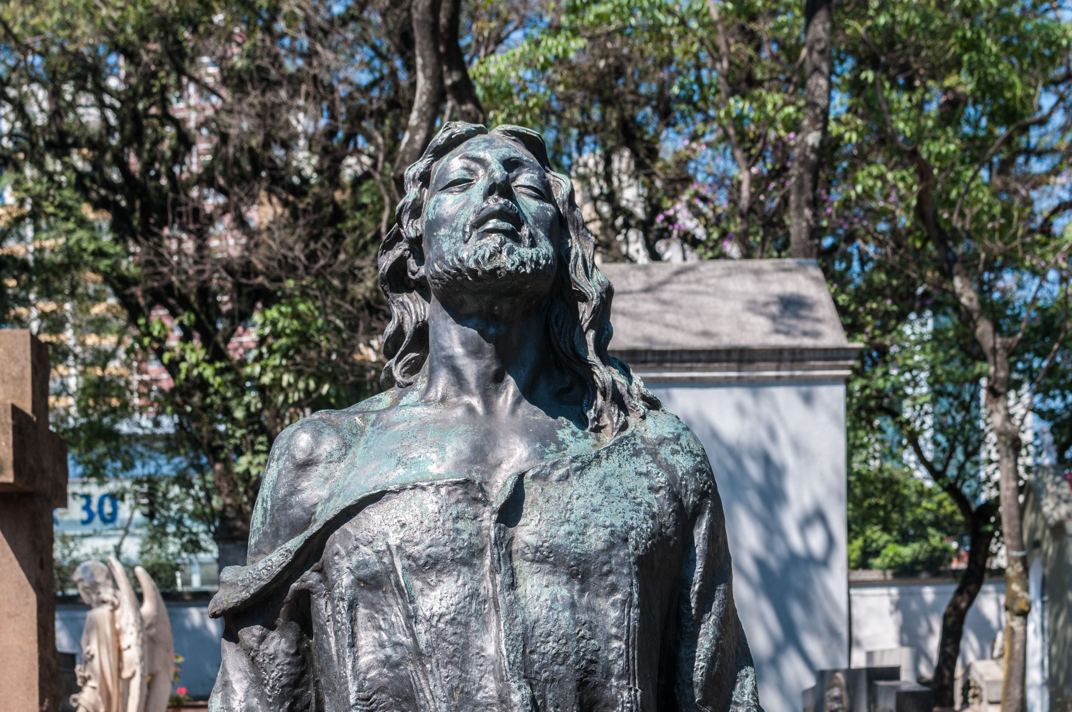 Consolata Cemetery